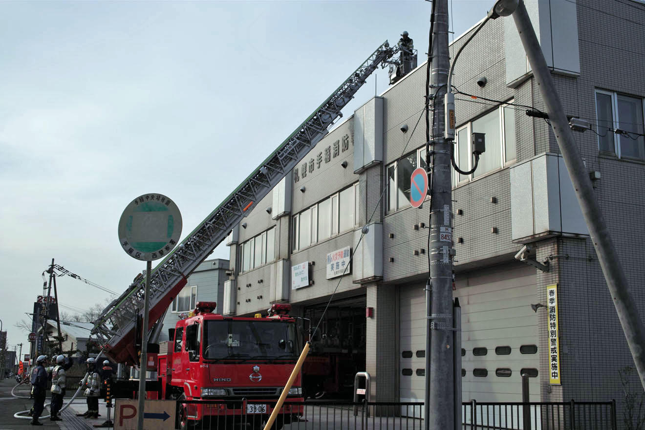 Teine fire station, Sapporo, Hokkaido, Japan